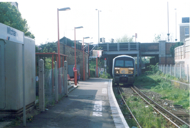 A Network SouthEast class 456 EMU departs Mitcham.